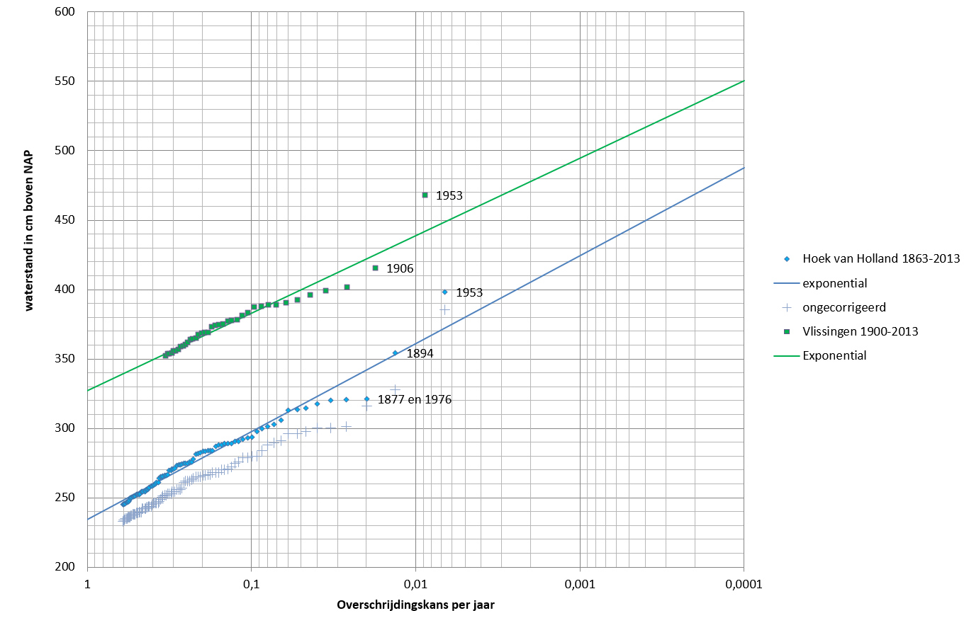 Exceedance lines corrected for sea level rise (base year 2013), data from publication by Rijkswaterstaat